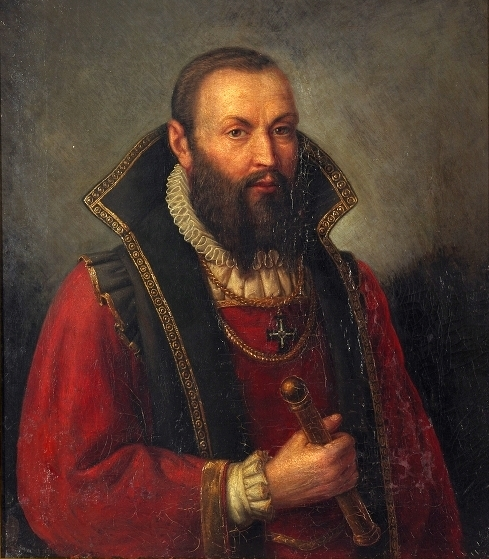 Gotthard Kettler, the first duke of Courland and Semgalia (1561 — 1587).